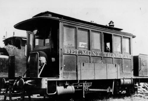 Baldwin steam tram motor on the Belmont Tramway, Brisbane, Queensland, Australia.